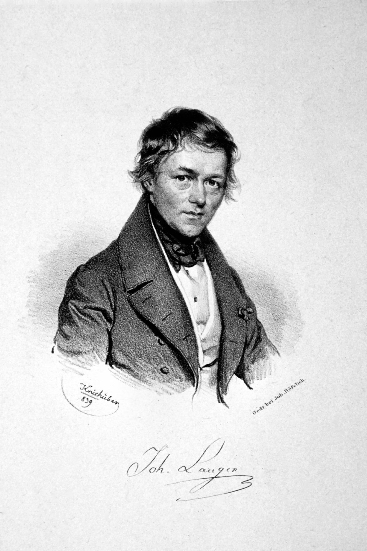 Portrait of Johann Langer (1793-1858), Austrian writer